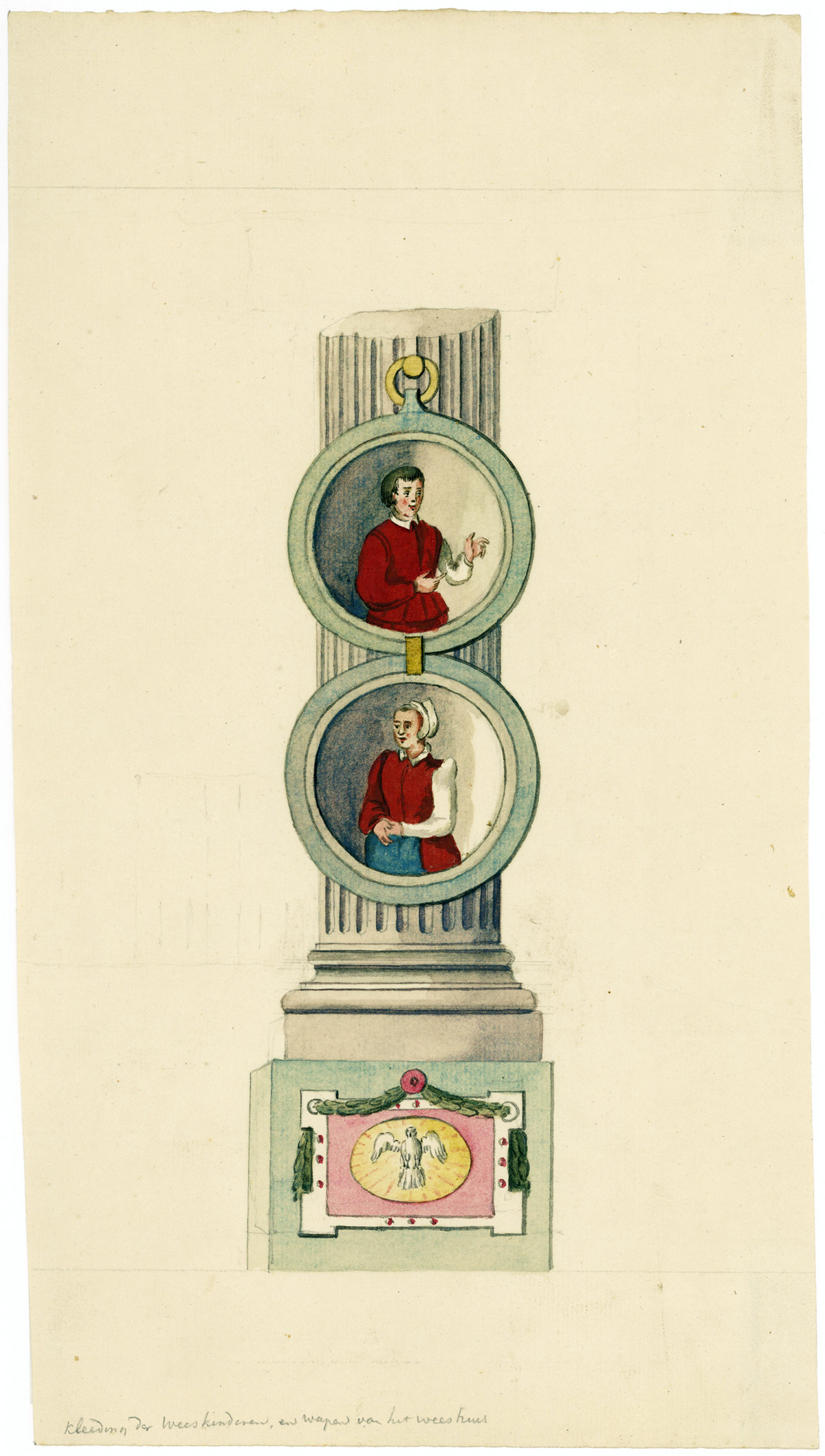 Pictures of uniforms of a boy and girl of the Heilige Geest Orphanage at the Hooglandsekerkgracht in Leiden on a column with the orphanage symbol, drawing in color, 18th century.